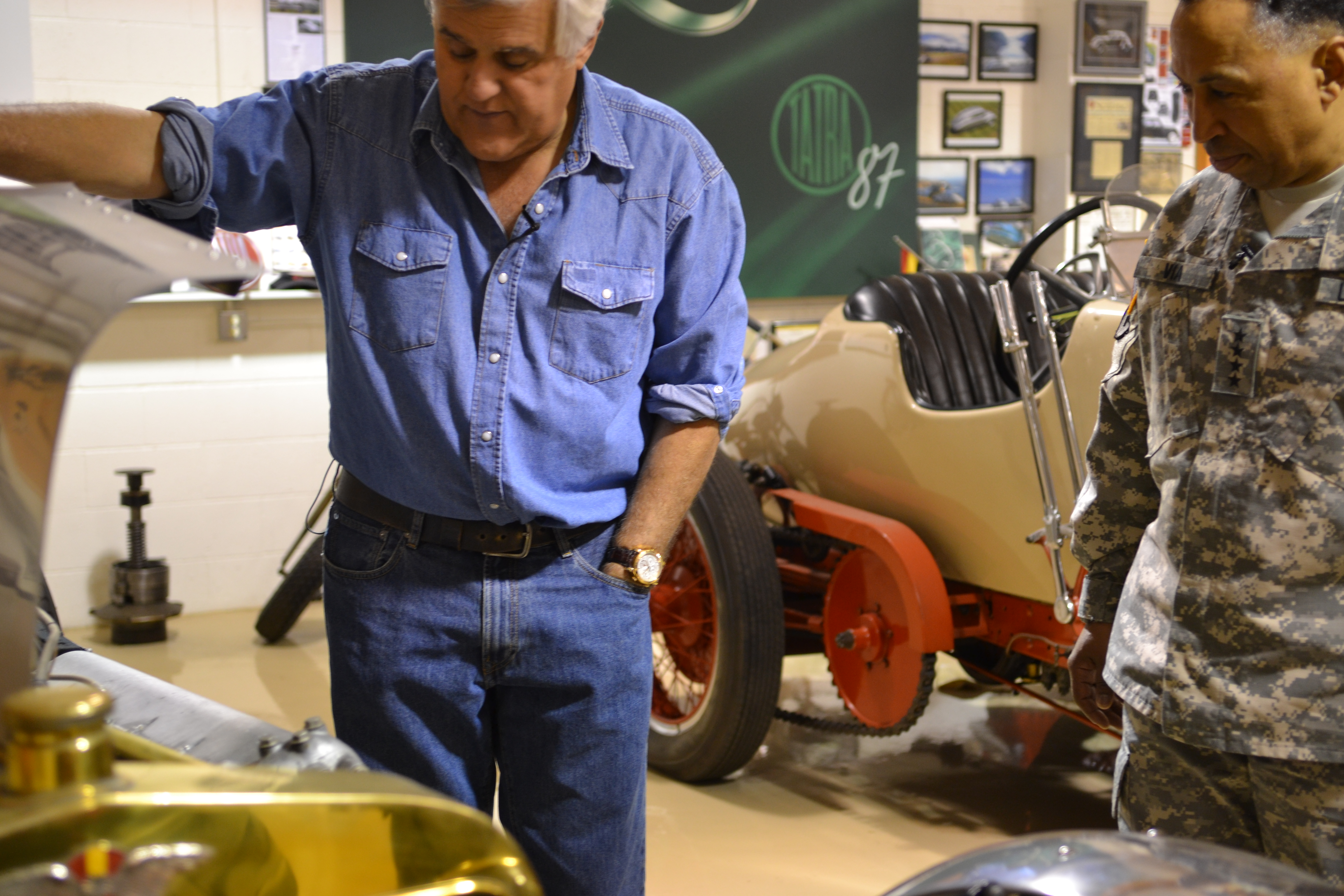 Jay Leno, television show host, interviewed Gen. Dennis L. Via, AMC commanding general, and Dr. Grace Bocheneck for his online show, Jay Leno’s Garage, Feb. 4. U.S. Army Photo by Cherish Washington, AMC Public Affairs.